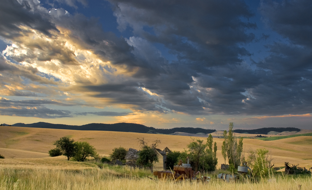 Palouse fields, USA. – This is an old homestead almost on the State line between Idaho and Washington, but it is still in Idaho. I was given a fantastic sky for this scene.